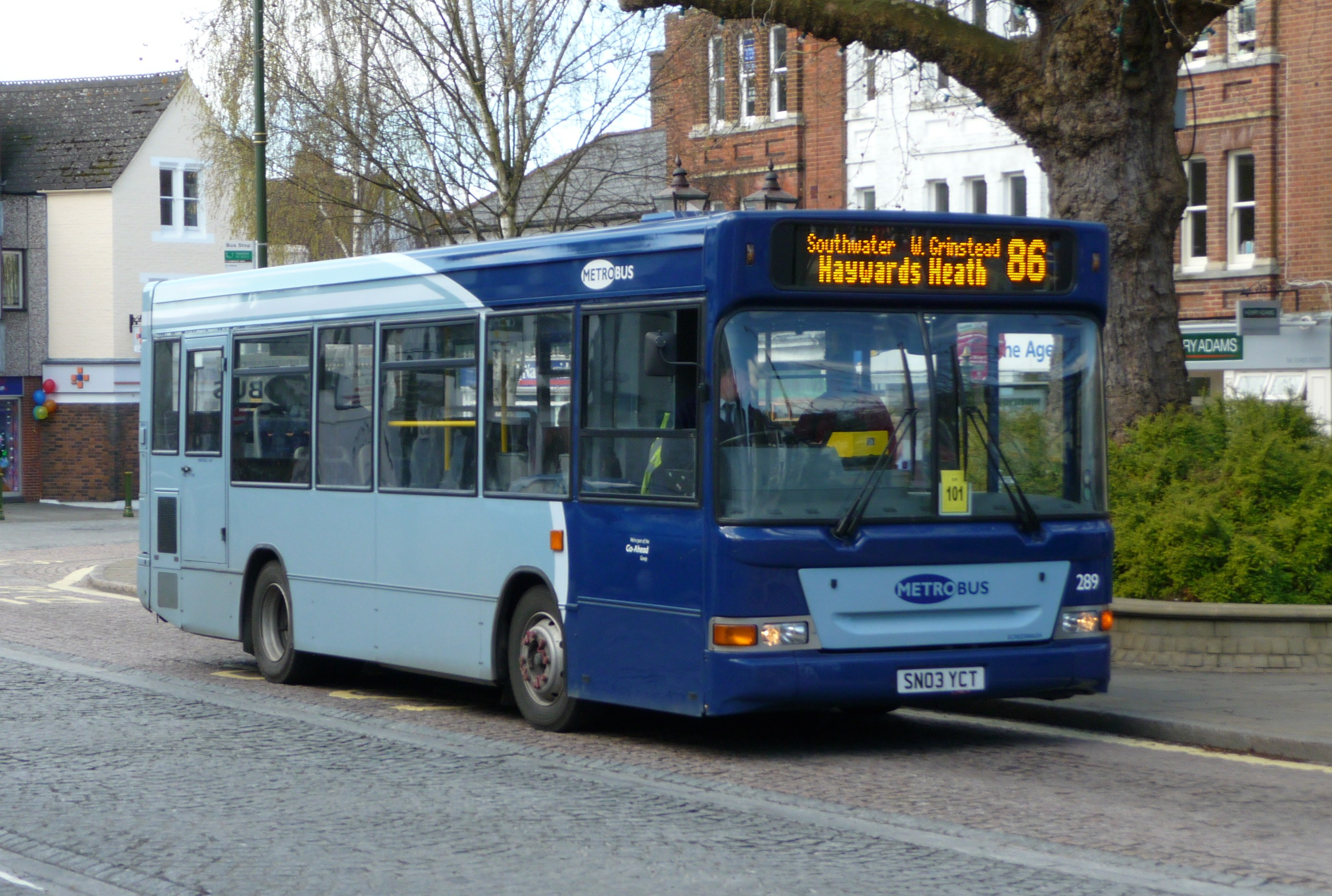 Metrobus 289 (SN03 YCT), a Dennis Dart SLF/Plaxton Pointer 2 MPD, in Carfax, Horsham, on route 86.